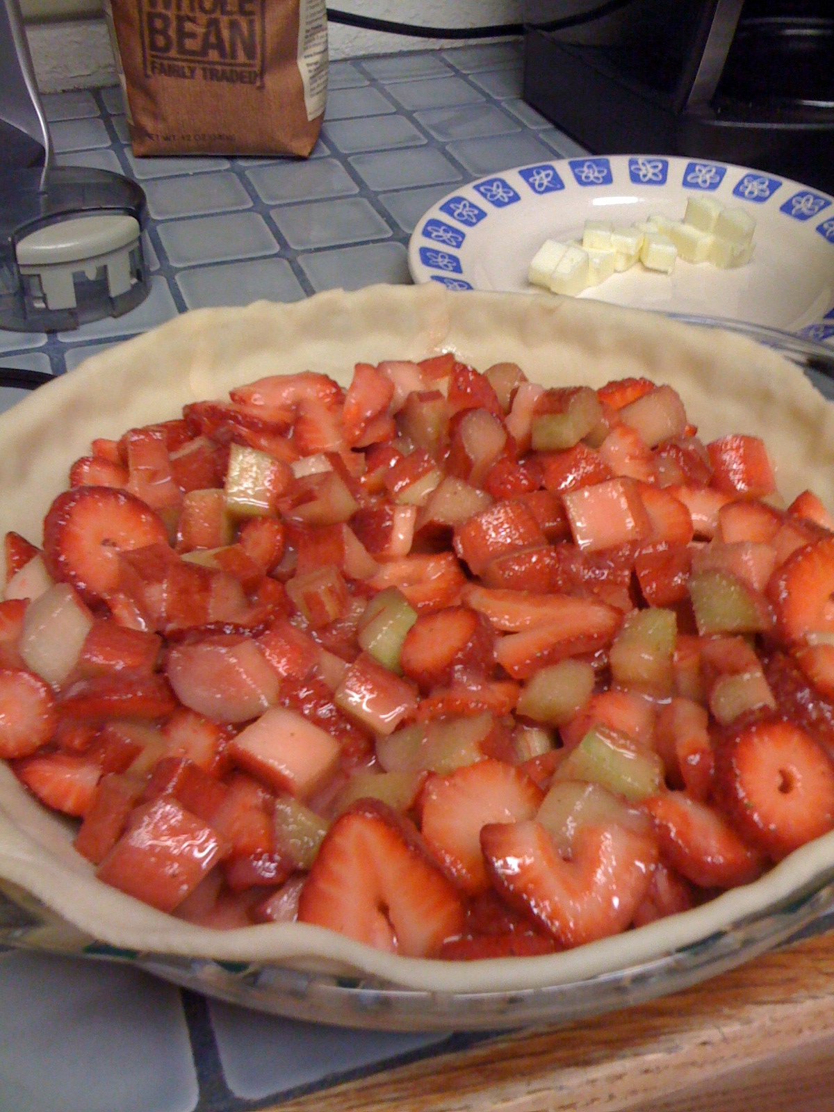 Filling of strawberry-rhubarb pie.